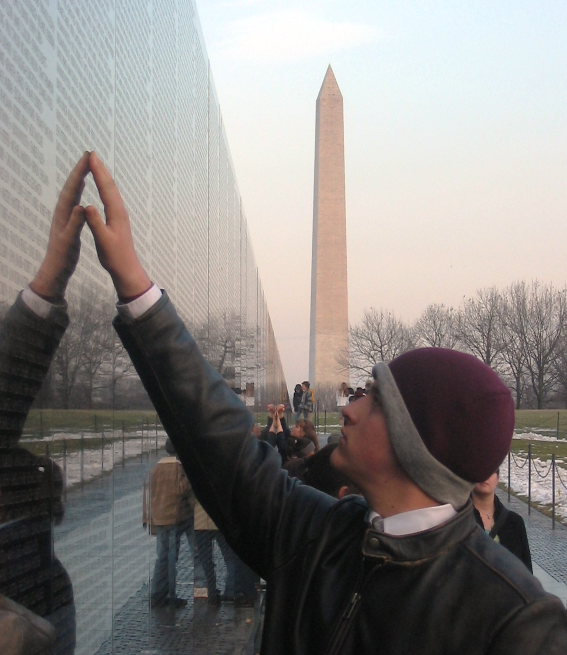 A visitor touching a name on The Wall at the Vietnam Veterans' Memorial. See this page for details concerning this pictures origins. Photographed by User:Skyring 26 January 2005